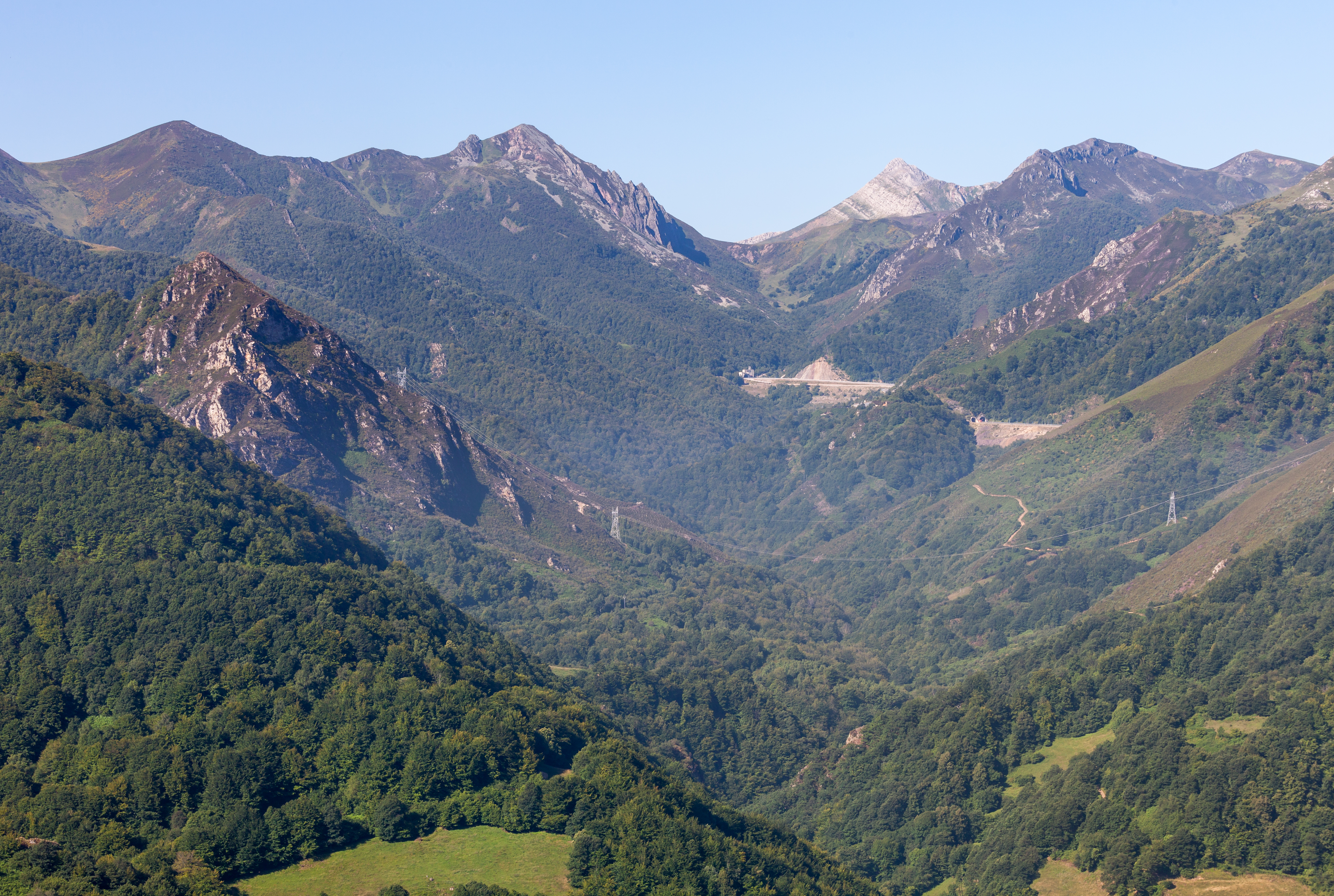 View from the top of Pajares. Asturias. Spain.